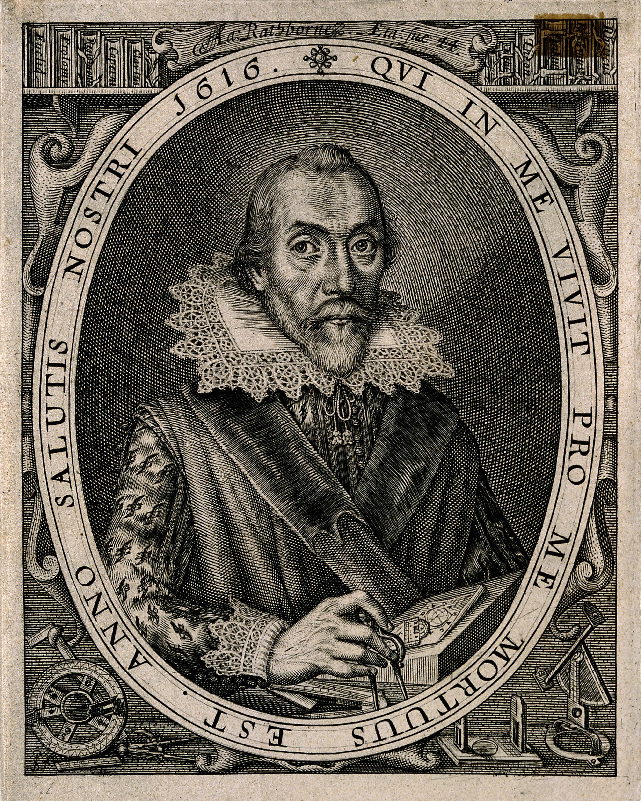 Aaron Rathborne. Line engraving by S. de Passe, 1616. Iconographic Collections Keywords: portrait prints; engravings; Simon de Passe; Aaron Rathborne